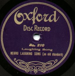 Oxford Disc Record label, before 1910